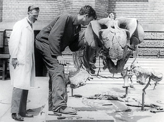 Stahleckeria potens was first collected by paleontologist Rudolf Stahlecker during an expedition led by paleontologist Friedrich von Huene in the late 1920s, in Paleontological Site Chiniquá, today located on geopark of paleorrota in Brazil.